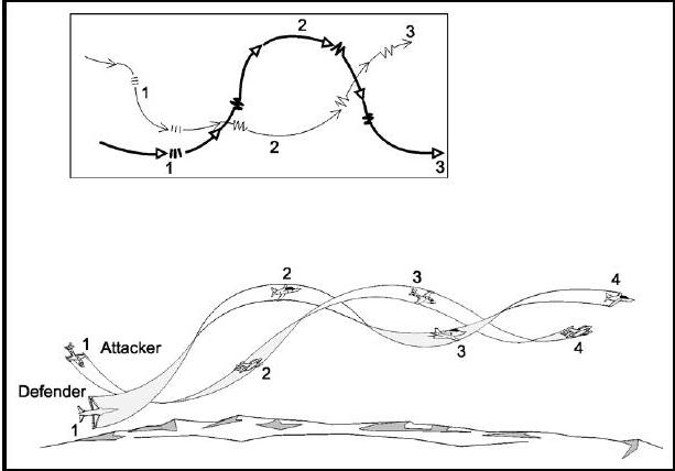 Flat scissors are a series of turn reversals. Source: United States Navy - Naval Air Training Command (NAS Corpus Christi, Texas) Flight training instruction manual. (Rev. 08-06 CNATRAP-821) 2006